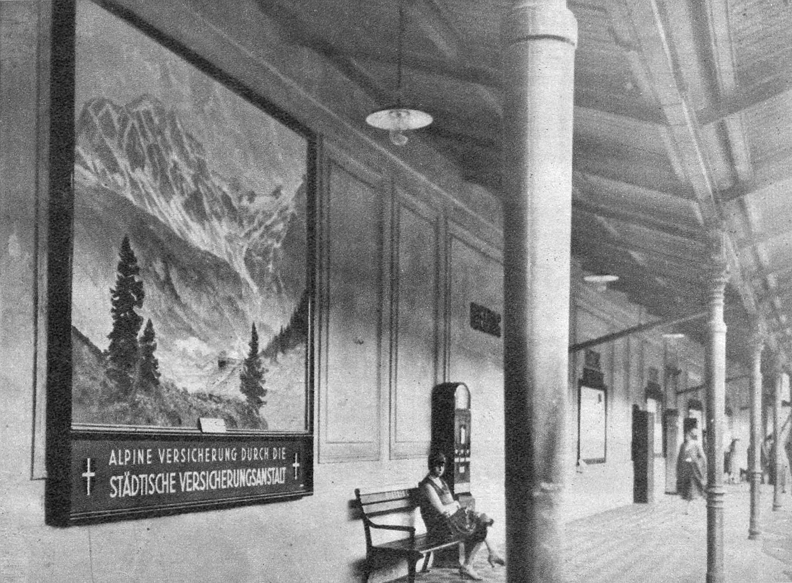 Metro station Hietzing (Vienna) with Sonnblick advertisement